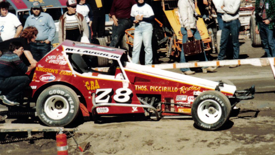 The Cra Z8 of Mike McLaughlin aka Magic Shoes when he drove up here before giving the NASCAR Busch Series a shot.